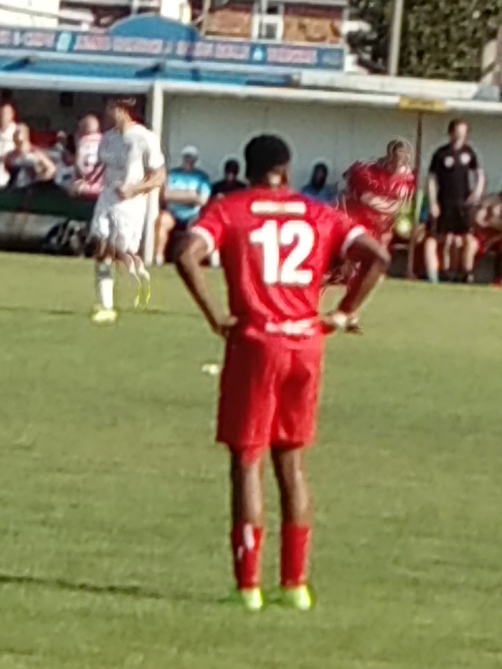 Ricky German playing for Hemel Hempstead Town in August 2019